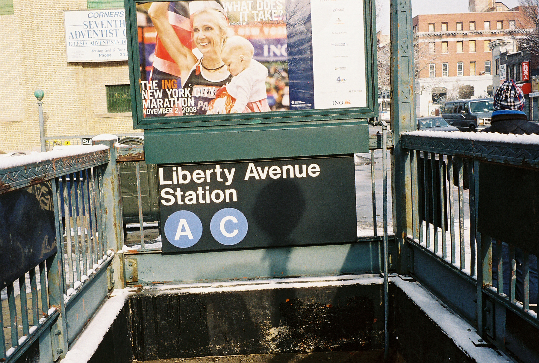 Photo for Wikipedia:Wikipedia Takes the Subway